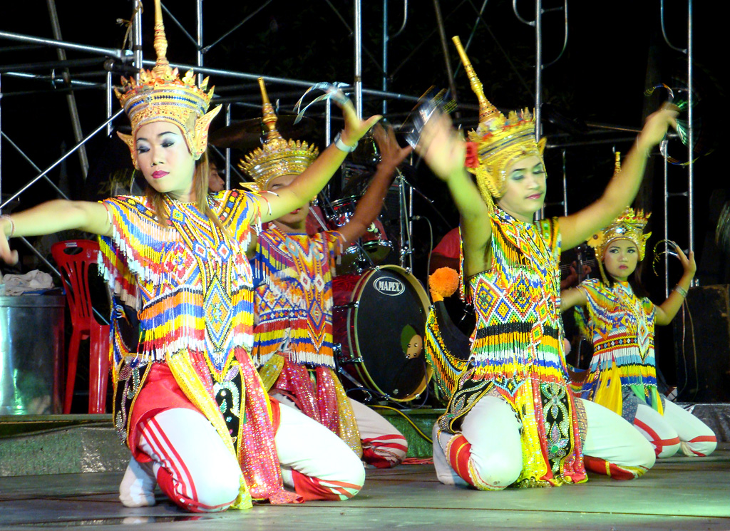 Traditional Thai dancers, presumably performing the southern Nora Dance (Manora), at a tempel market. Koh Samui, Thailand